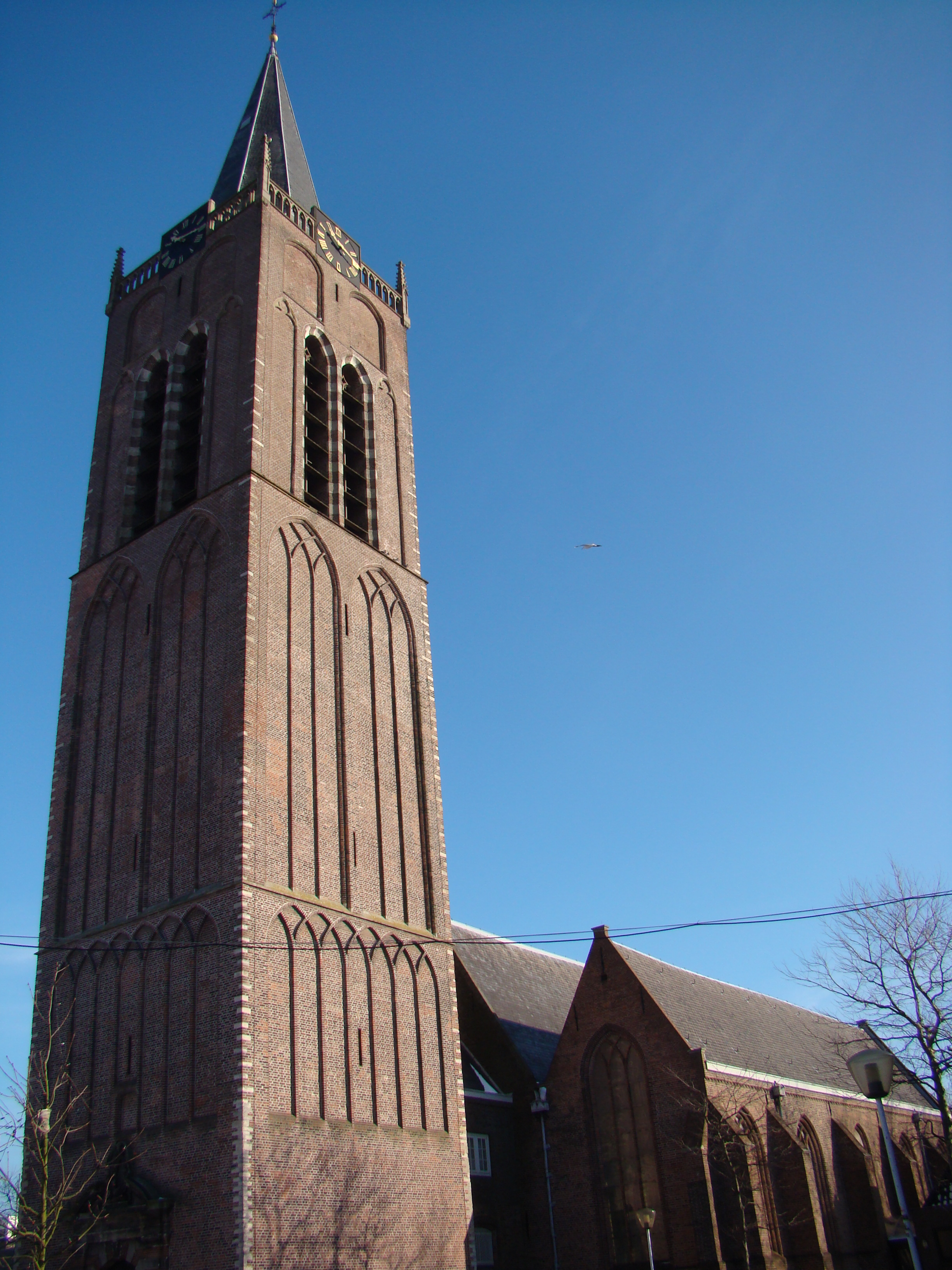 Wijkertoren, Beverwijk